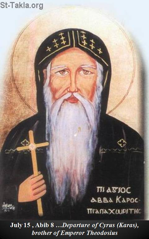 A Picture for the great coptic St.AVA Karas